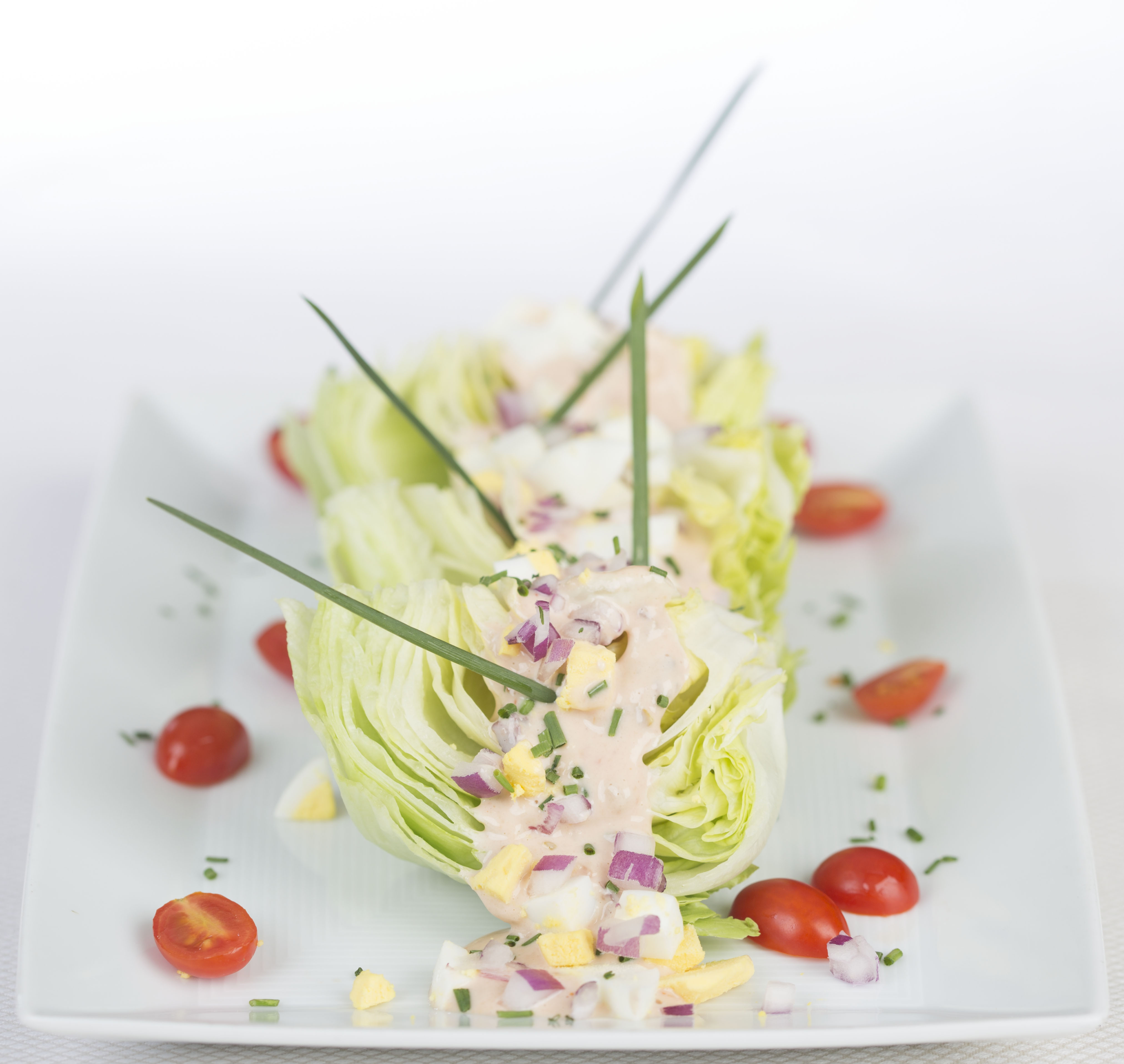 Thousand Island Dressing, prepared by Waldorf Astoria New York